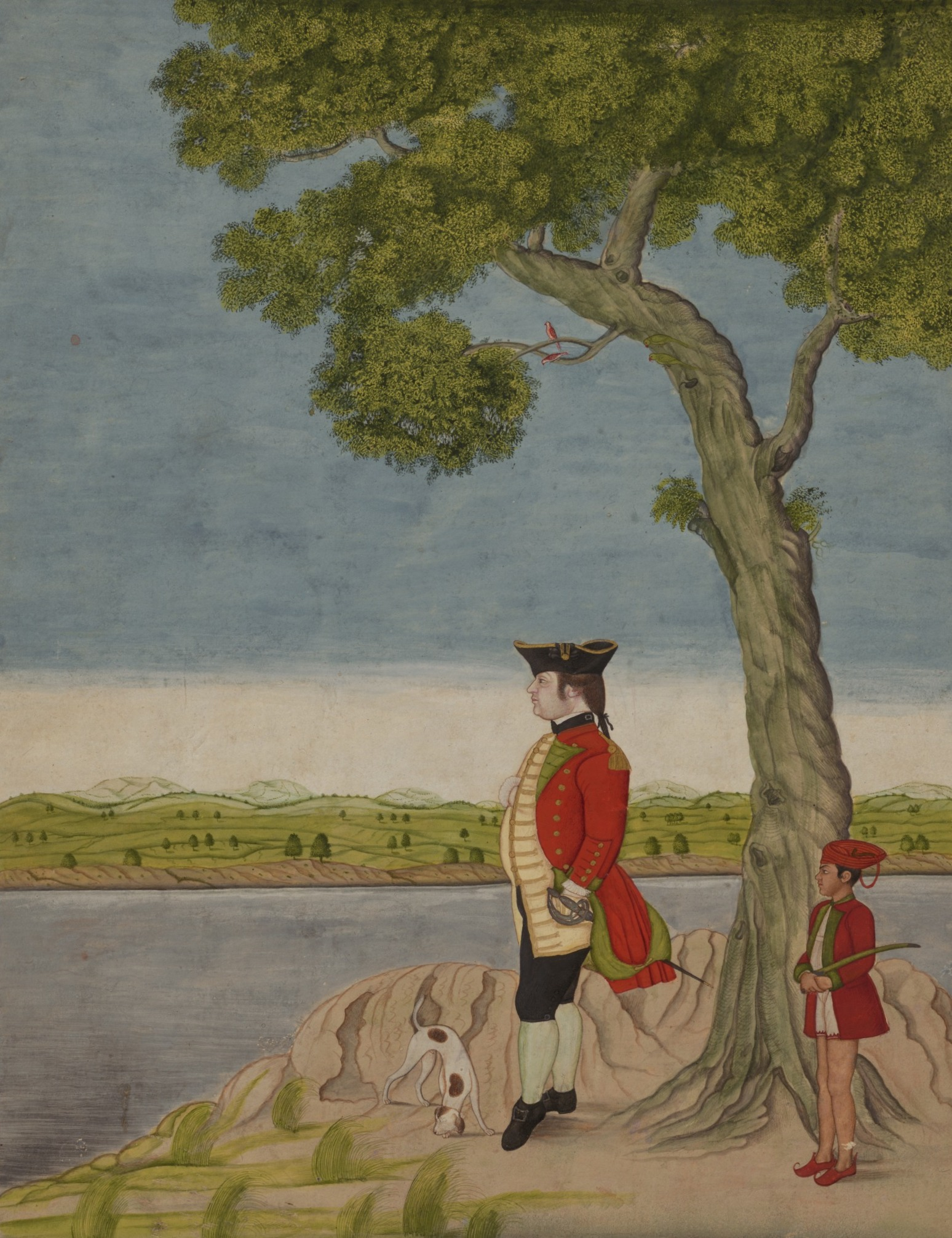 The pictures made by Indian artists for the British in India are called Company paintings. This one shows a military officer of the East India Company. The Indian artist has used the native technique and the style of the late Mughal Murshidabad school of painting. However, the style is moving in the direction of Company painting. The tree in particular shows the influence of European watercolours. The river is probably the Bhagirathi in West Bengal.